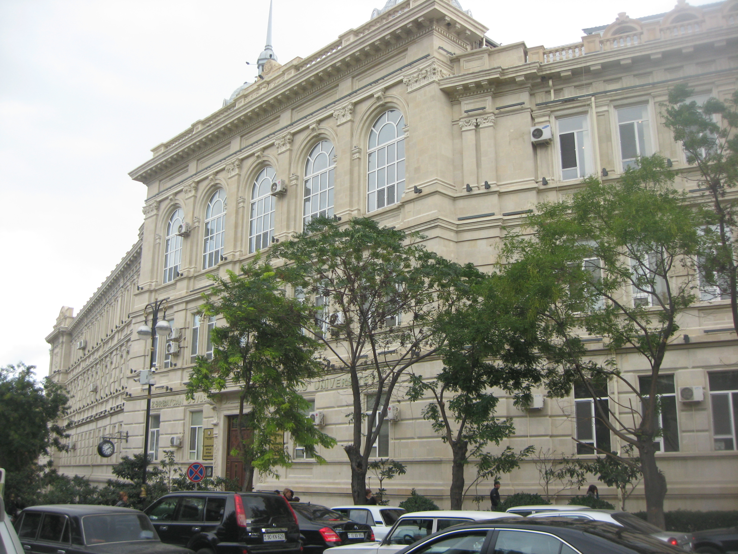 ASEU in Baku